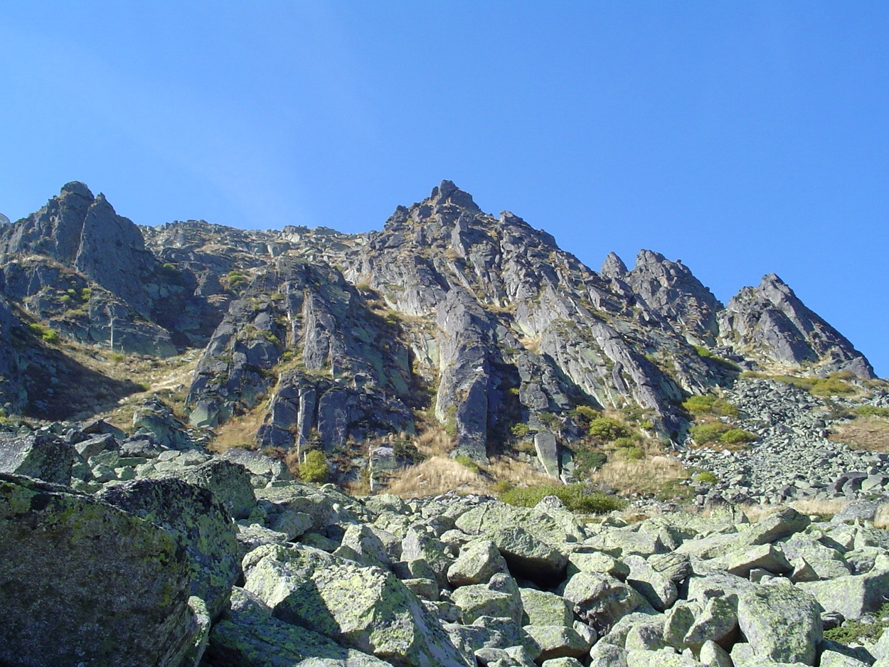 The east slopes of Golyam Rezen Peak on Vitosha Mountain, Bulgaria. Photograph by Kiril Kapustin published in under Creative Commons license 2.5.